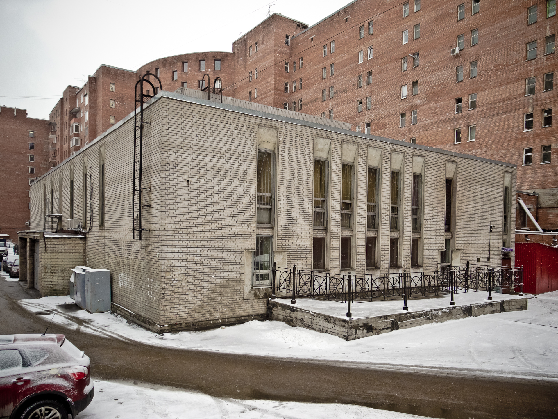 Ploshchad Muzhestva subway station in Saint Petersburg. The pavilion.